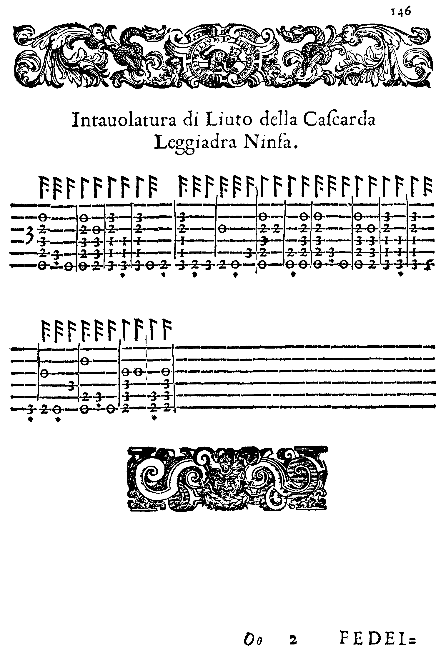 Facsimile of sheet music of Fabritio Caroso's cascarda "Leggiarda Ninfa" from "Il Ballarino" (1581).